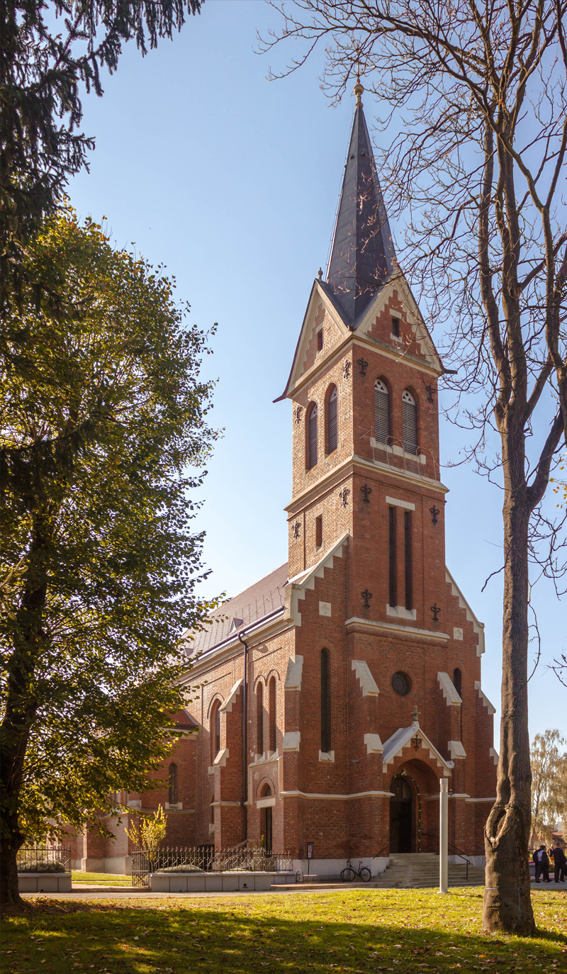 Church